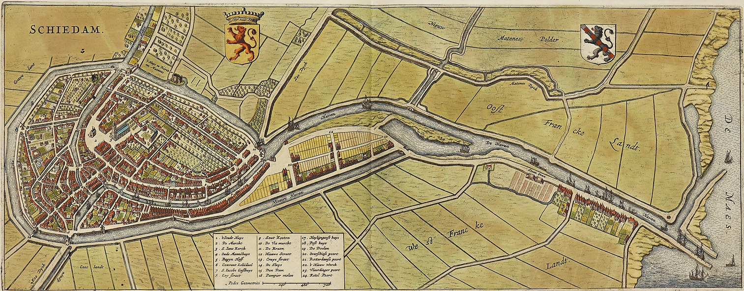 Plate 'pl021'(Schiedam) from the Stedenboek (citybook) by Frederick de Wit.